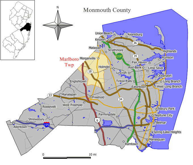 Source: Jim Irwin